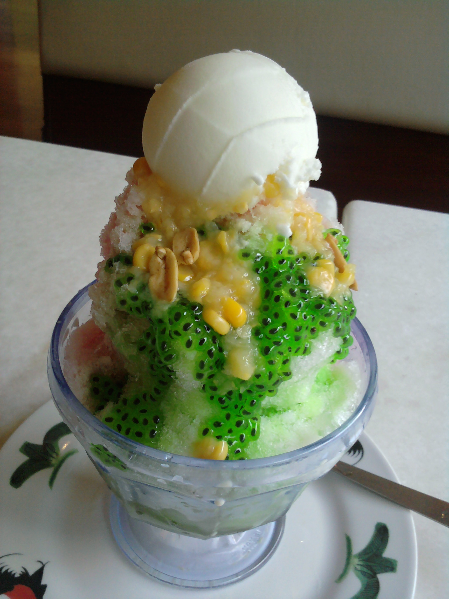 Ais kacang topped with ice cream -- purchased at a cafe in Ipoh